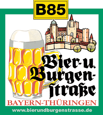 Official Logo of the Bier- und Burgenstraße in Germany